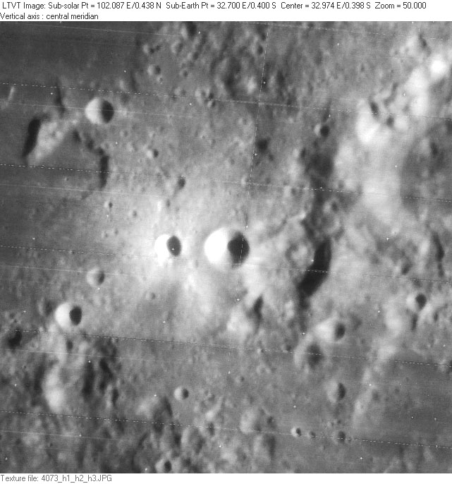 Detail from Lunar Orbiter IV-073H. High resolution scans from the USGS Lunar Orbiter Digitization Project remapped to a north-up aerial view by LTVT. The image is centered on Censorinus A. Censorinus is to its left.